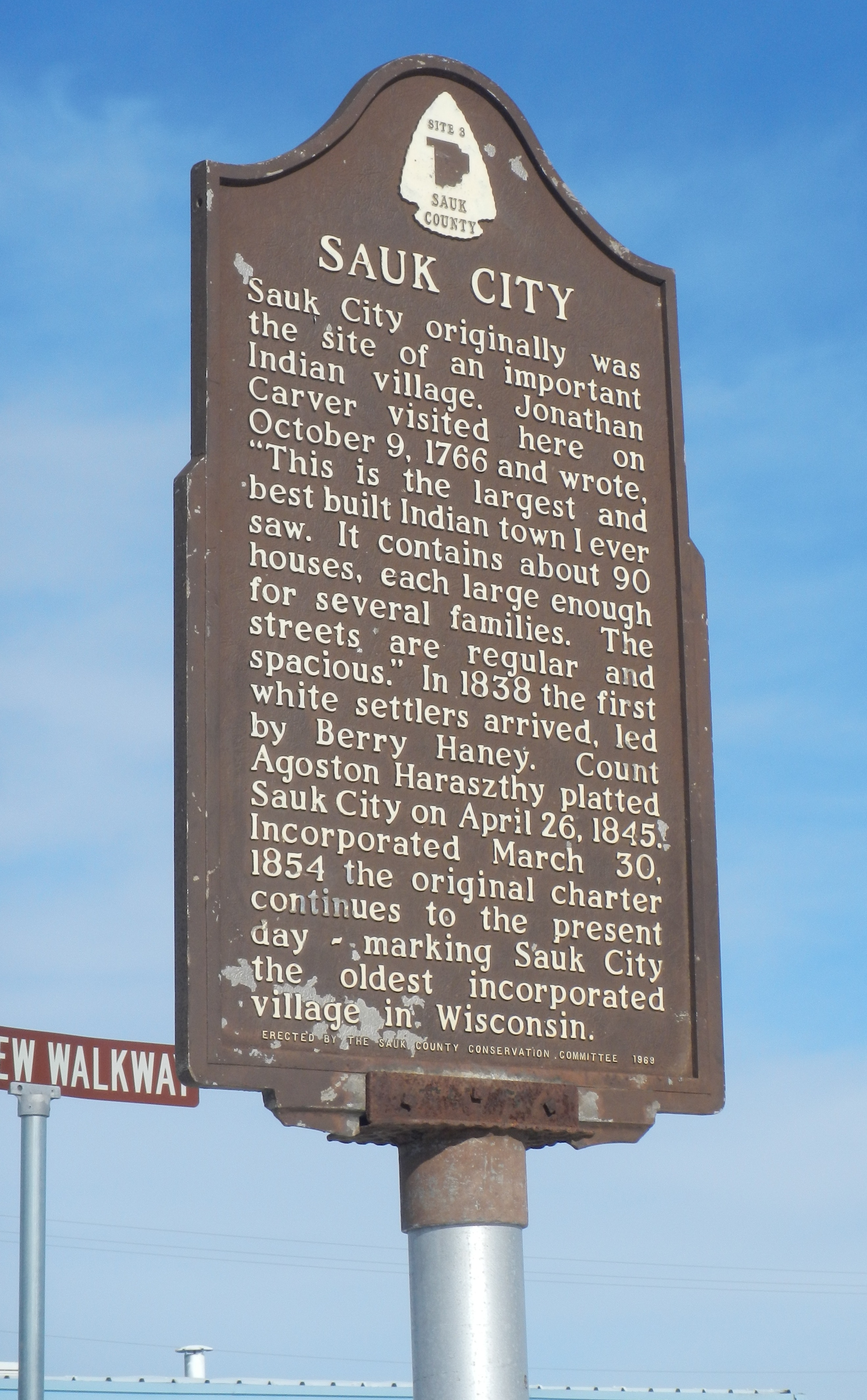 Historical marker in Sauk City, Wisconsin